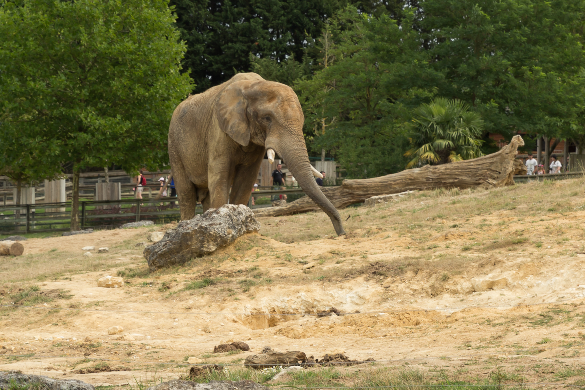 Loxodonta africana (African bush elephant) in the ZooParc de Beauval in Saint-Aignan-sur-Cher, France.